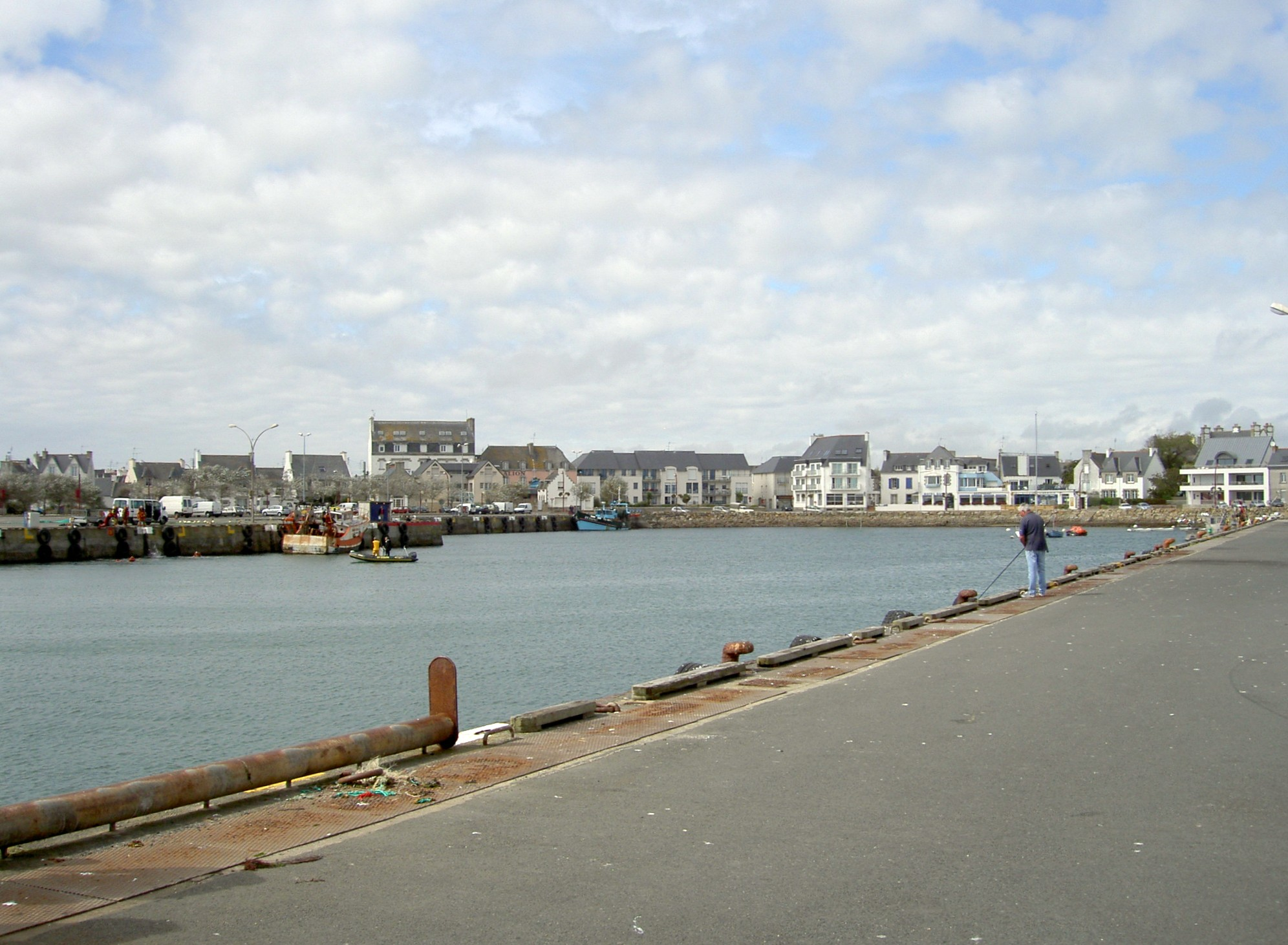 Port of Plobannalec-Lesconil, France.